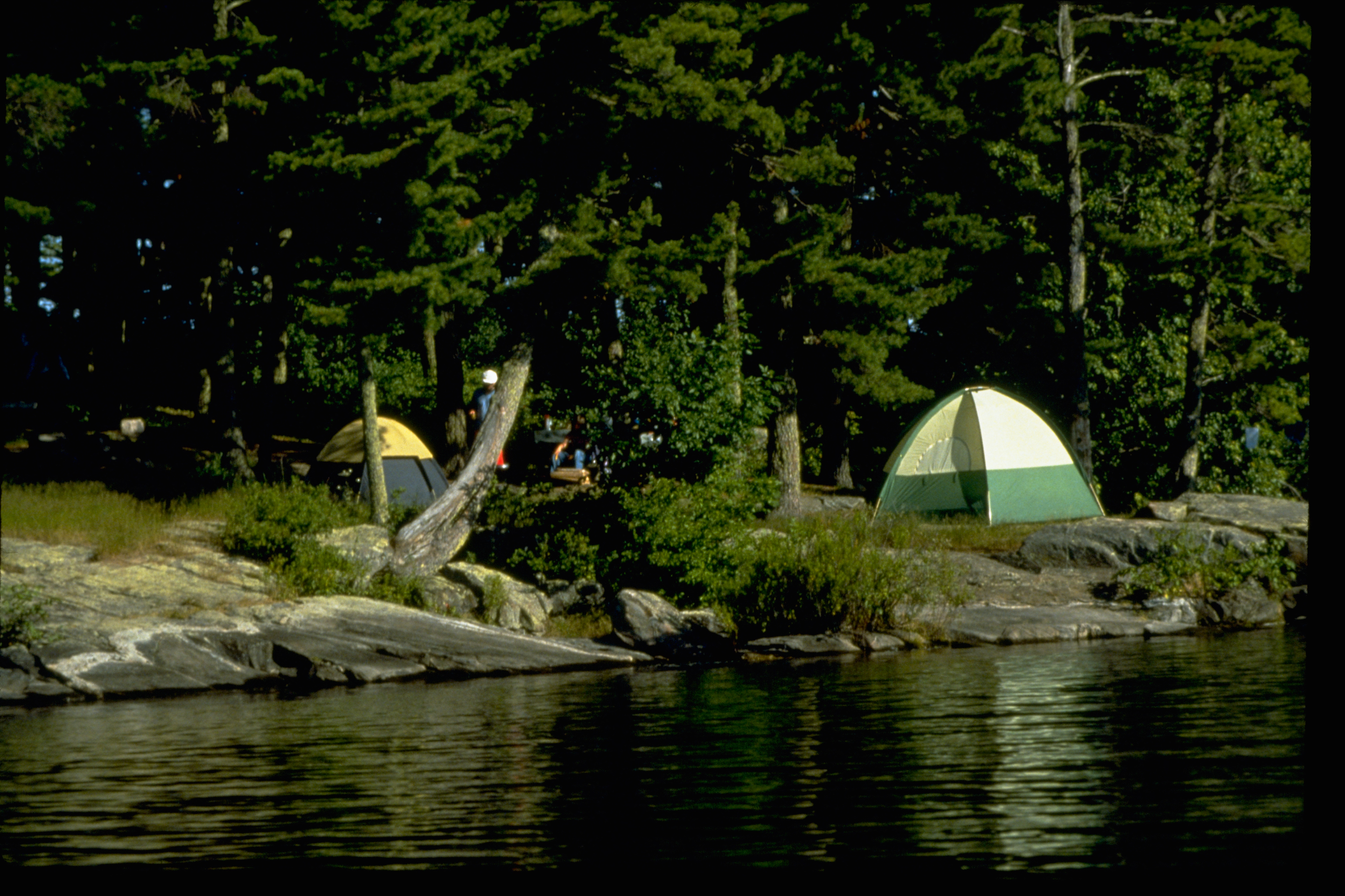 Nearly 200 years ago voyageurs paddled birch bark canoes full of animal pelts and trade goods through this area on their way to Lake Athabaska, Canada. Today, people explore the park by houseboat, motorboat, canoe and kayak. Voyageurs is a water-based park where you must leave your car and take to the water to fully experience the lakes, islands and shorelines of the park.